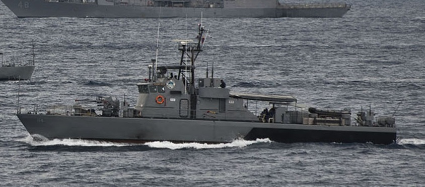 CELEBES SEA (July 8, 2012) Philippine Navy ships BRP Salvador Abcede (PG 114), BRP Miguel Malvar (PS 19), and BRP IloIlo (PS 32); Philippine Coast Guard ship PCG Pampanga (SARV 003); and USS Vandegrift (FFG 48) steam together with and U.S. Coast Guard Cutter Waesche (not pictured) to mark the conclusion of the at-sea phase of Cooperation Afloat Readiness and Training (CARAT) Philippines 2012. CARAT is a series of bilateral military exercises between the U.S. Navy and the armed forces of Bangladesh, Brunei, Cambodia, Indonesia, Malaysia, the Philippines, Singapore, and Thailand. Timor Leste joins the exercise for the first time in 2012. (U.S. Navy photo by Mass Communication Specialist 3rd Class Gregory A. Harden II/Released)